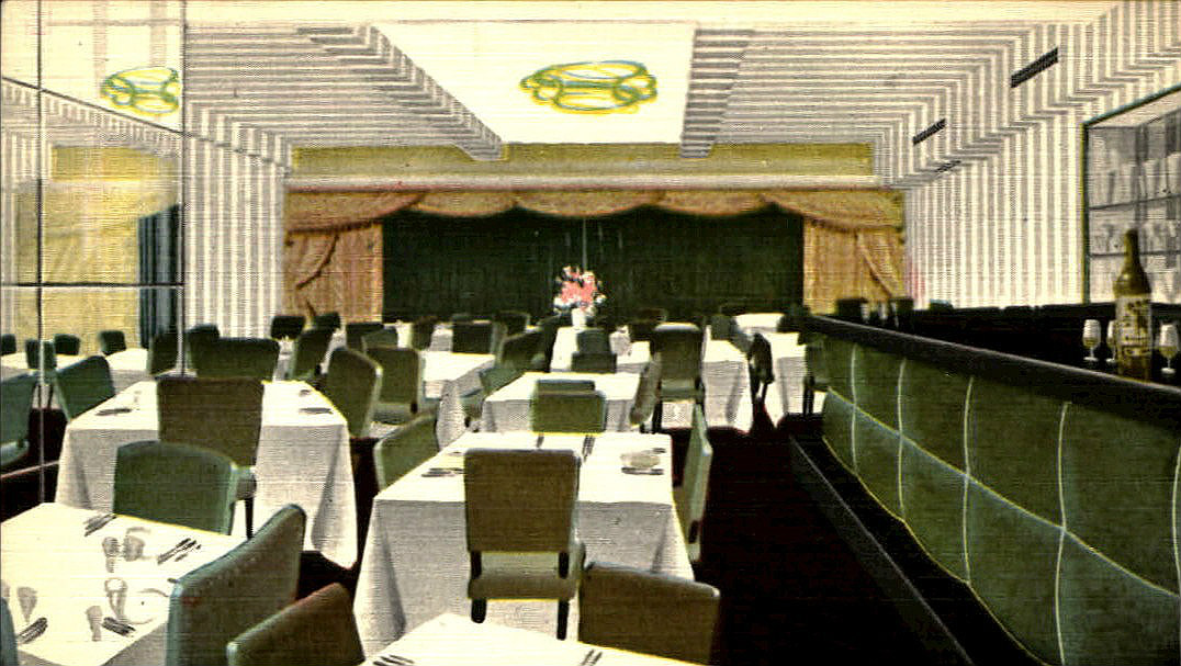 Postcard from the Stork Club with illustration depicting their "Blessed Event" room for private parties There are no copyright marks or statements on either side of the postcard. The club went out of business in October 1965, so the card definitely comes under the pre-1978 heading. A Copyright search done on Stork Club turns up no listings which would pertain to this postcard.